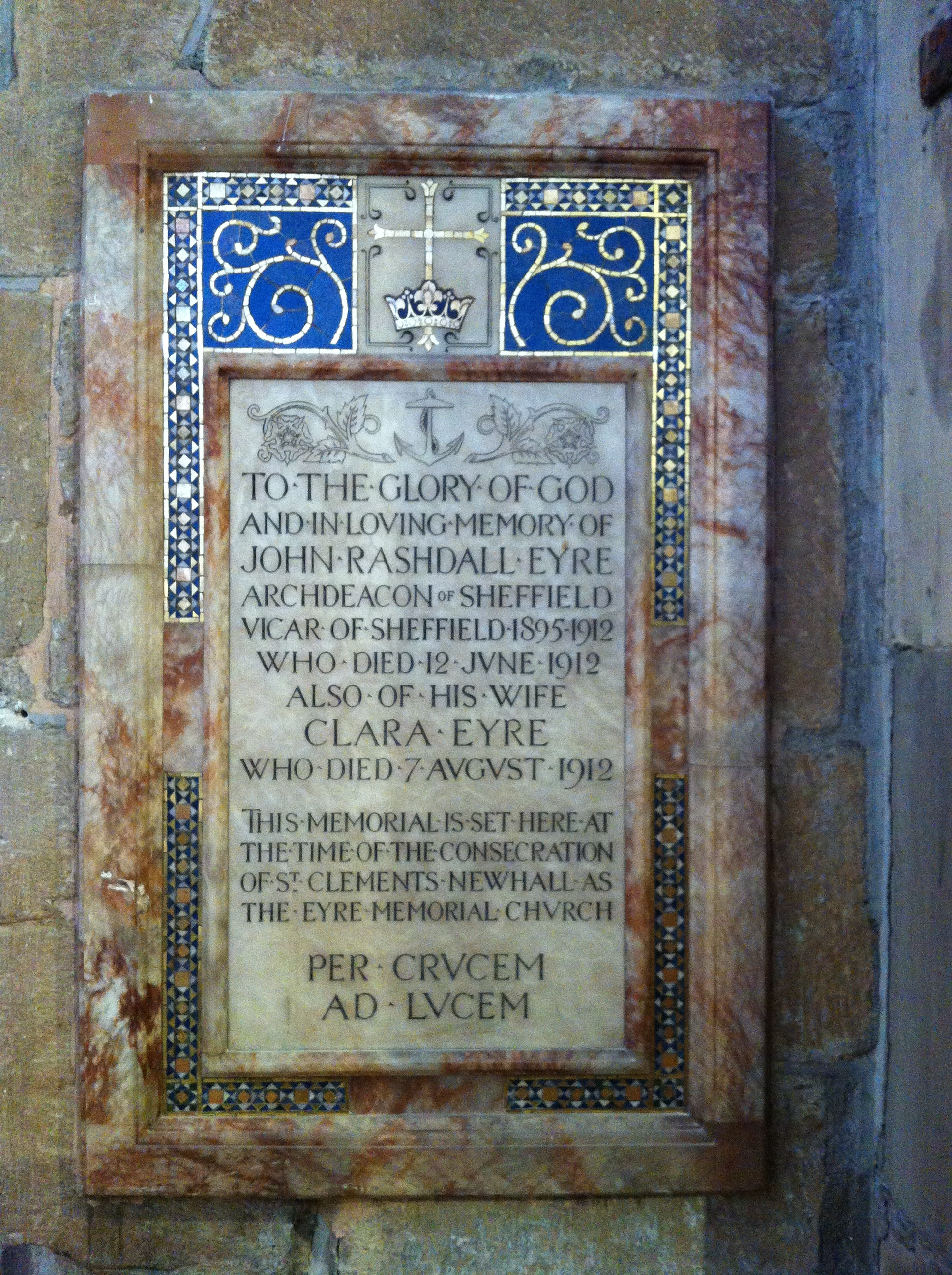 John Rashdall Eyre, Archdeacon of Sheffield, Vicar of Sheffield 1895 - 1912, died 12 June 1912. Also Clara Eyre, died 7 August 1912.